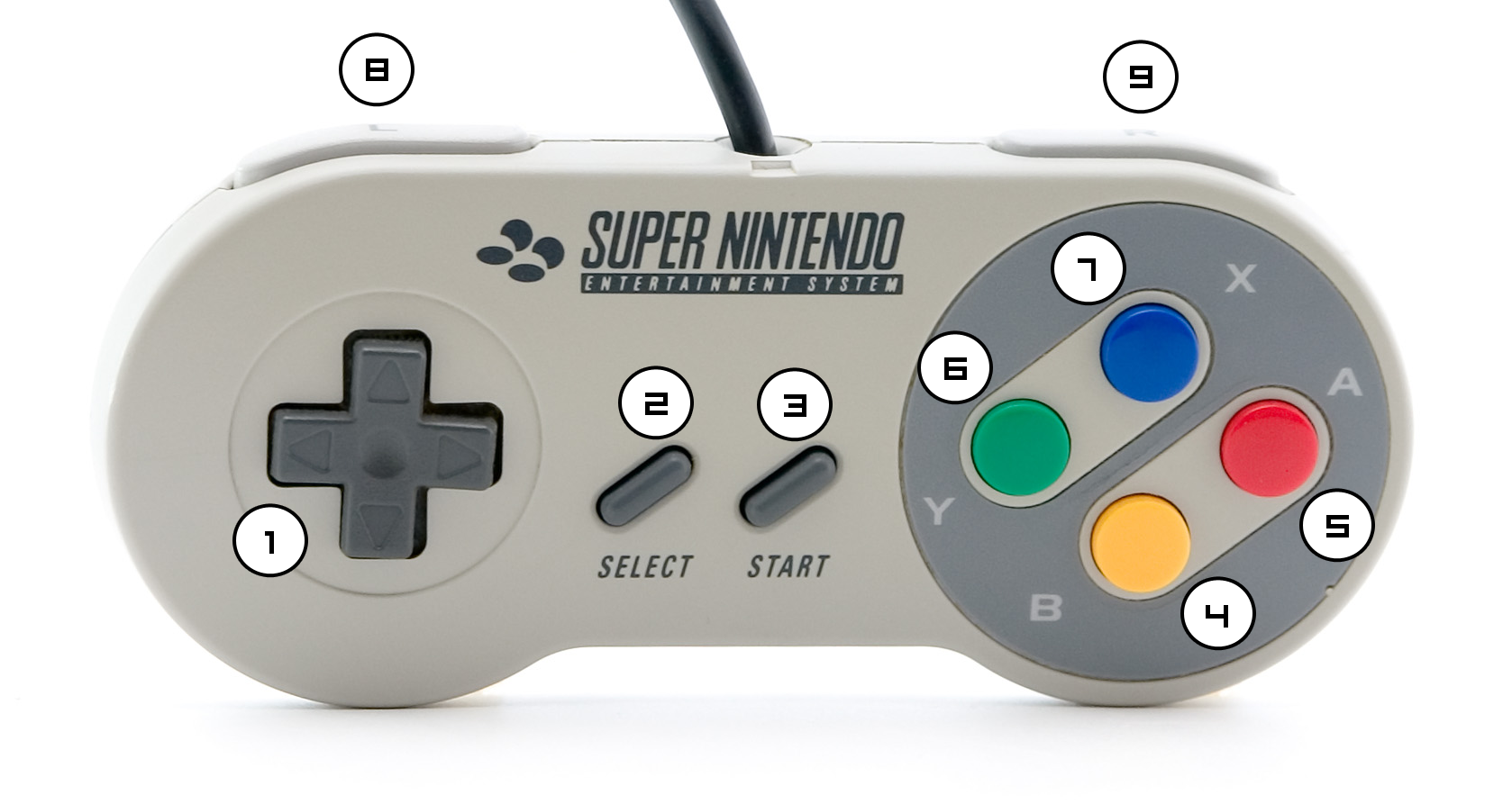 SNES controller detailed